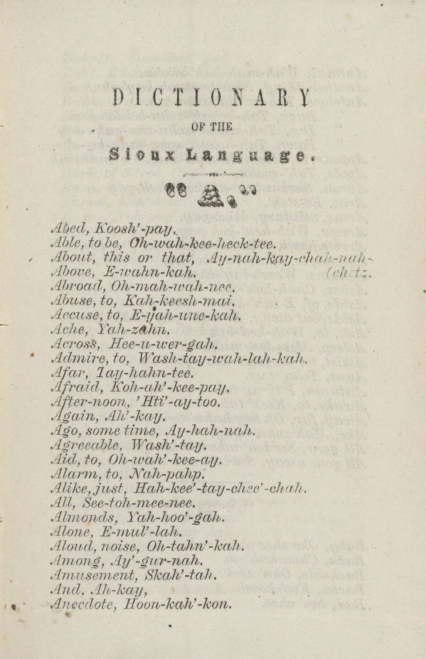 Page from Dictionary of the Sioux Language, unidentified publisher in Fort Laramie, Dakota, 1866. Interior page gives alternate title Lacotah. By Joseph Keyes Hyer (d. 1882) and William Sylvanus Starring (d. 1889). From a personal copy given by Starring to Louis Agassiz. 1273.51, Houghton Library, Harvard University